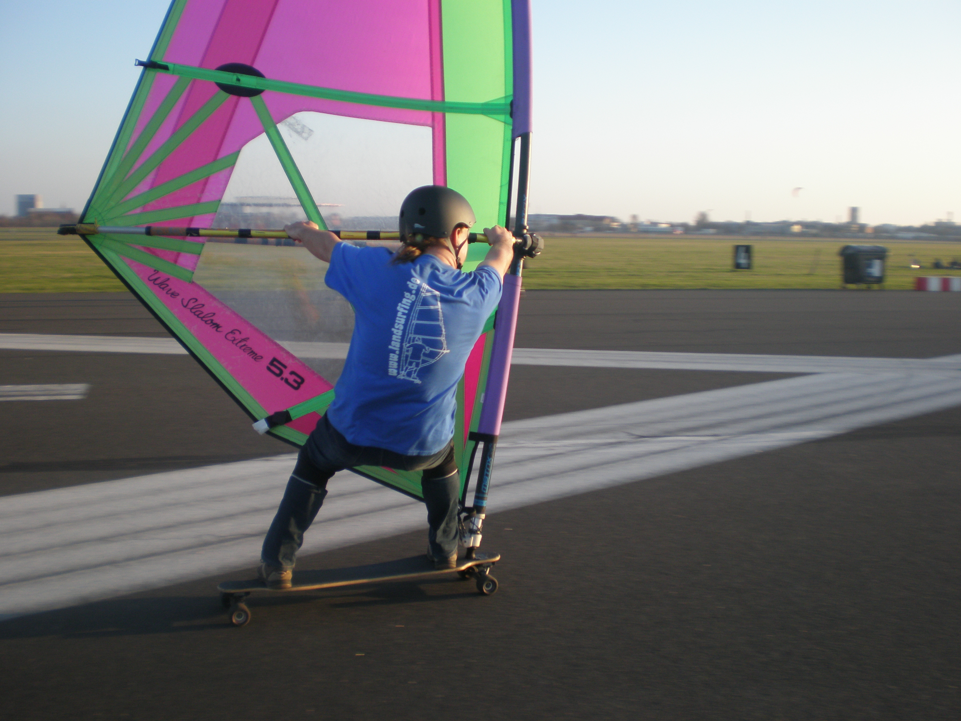 windskater, landsurfer at Tempelhofer Feld, Berlin, Germany